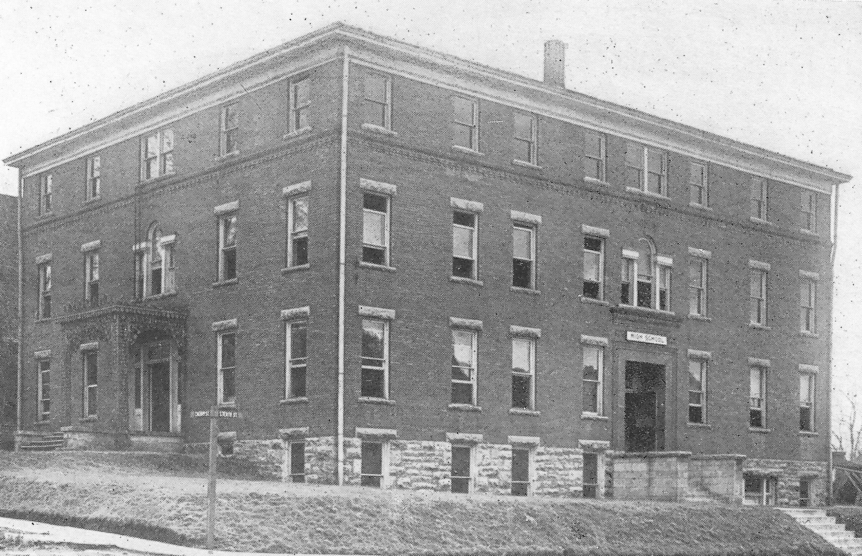 The University of Missouri High School in 1911. Image is from a scan I made from page 94 of the 1911 Savitar yearbook